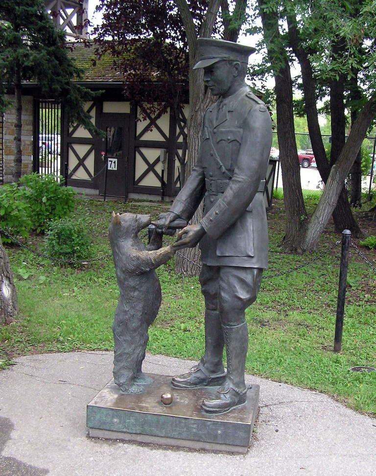 Winnie-the-Pooh in the Zoo of Winnipeg